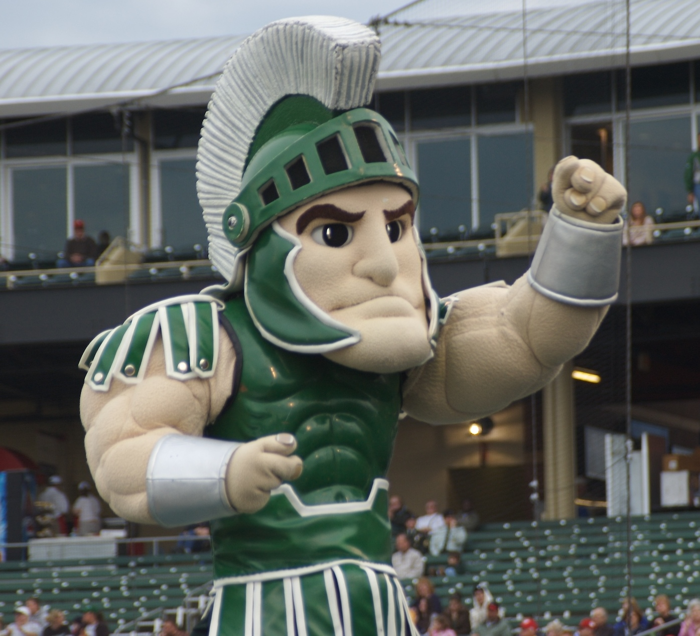 Michigan State University @ Lansing 04032007